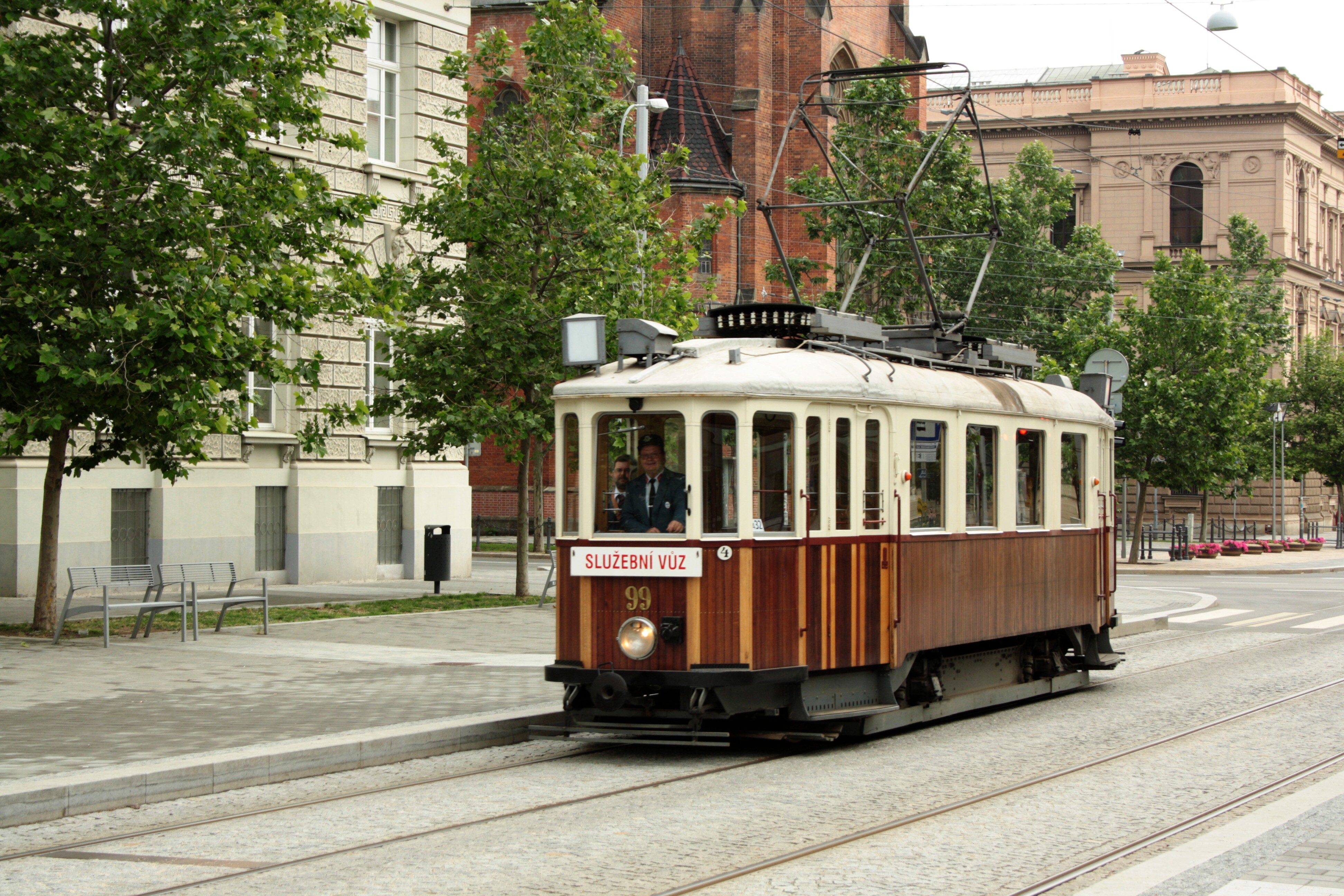 Historical tram No. 99, Brno, Czech Republic - OpenStreetMap(Info) This photograph was taken with DSLR from WMCZ's Camera grant